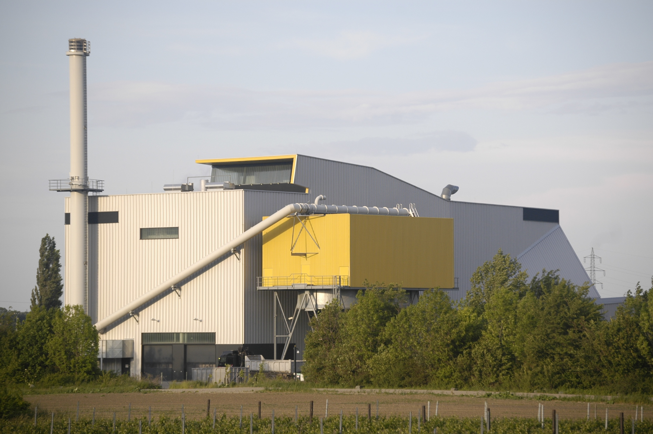 View from outside of the biomass district heating power plant from Baden in Lower Austria